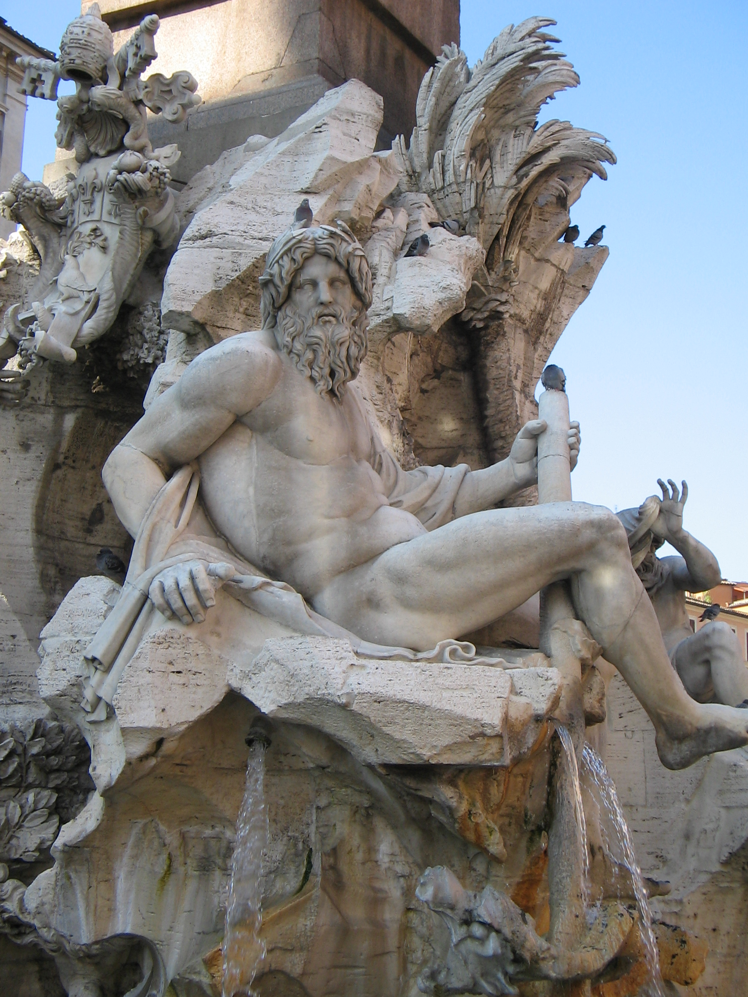 The river-god Ganges by Gianlorenzo Bernini (1651), from the Fontana dei Quattro Fiumi in Rome. Picture by Carlo Morino, 16/X/2005.